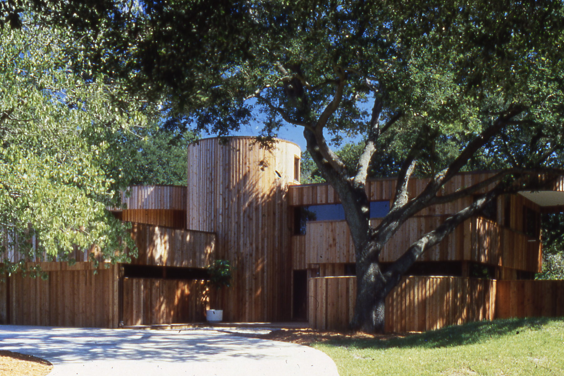 The Williers residence in Tampa, Florida, designed by John Howey